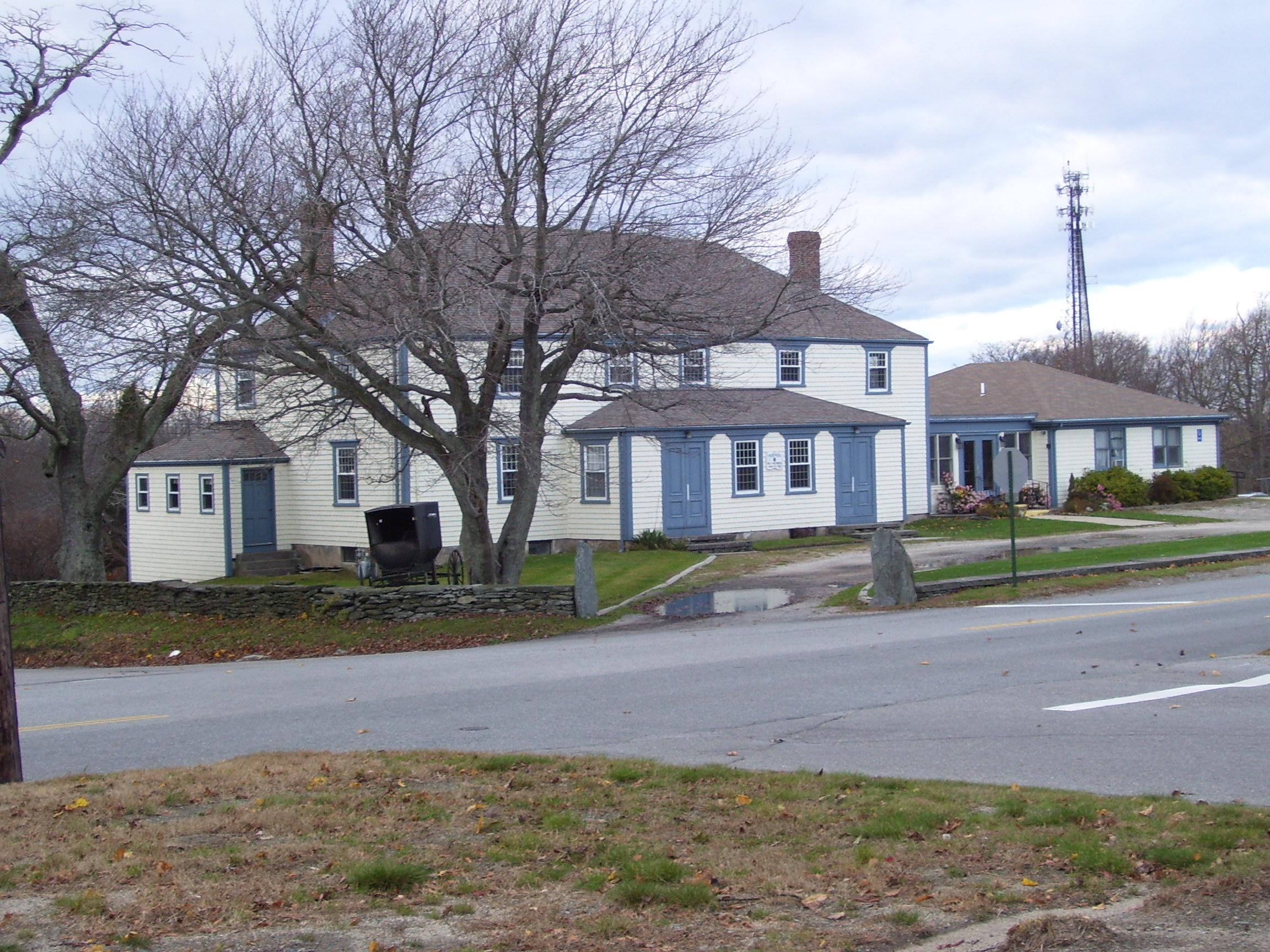 This is my 2008 photo of Portsmouth Friends Meetinghouse in RI.